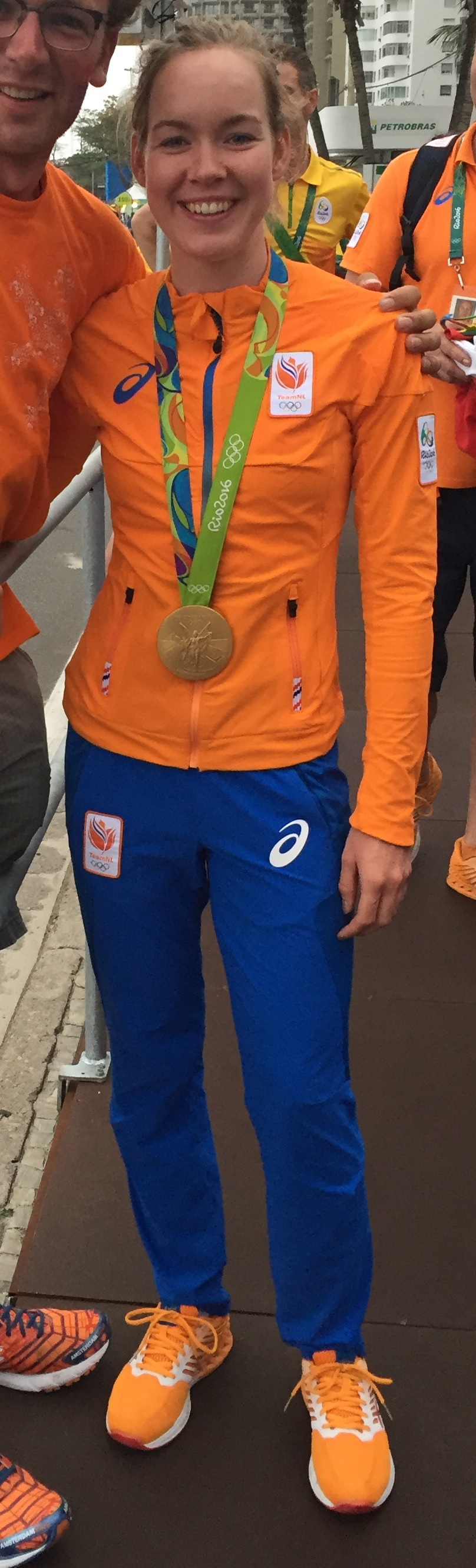 Rio 2016 - Women's road race